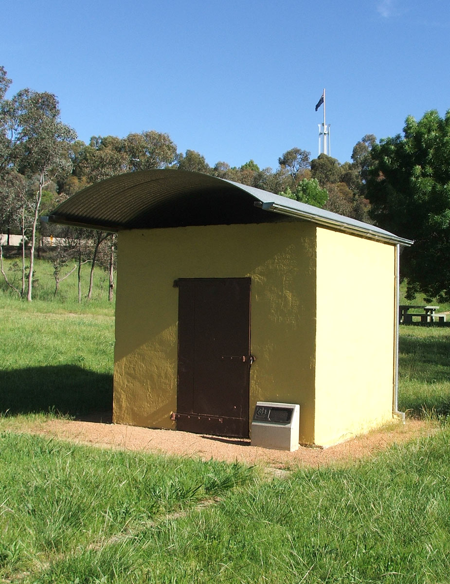 The surveyors hut near parliament house. The plaque reads: Surveyor's Hut The Surveyor's Hut is all that remains of the original Federal Capital survey camp established circa 1909. It is one of the oldest Commonwealth buildings in the ACT. Charles Robert Scrivener, who surveyed the site of Canberra used this simple structure for secure storage of survey documents. Entered in the Register of the National Estate on 28 September 1982